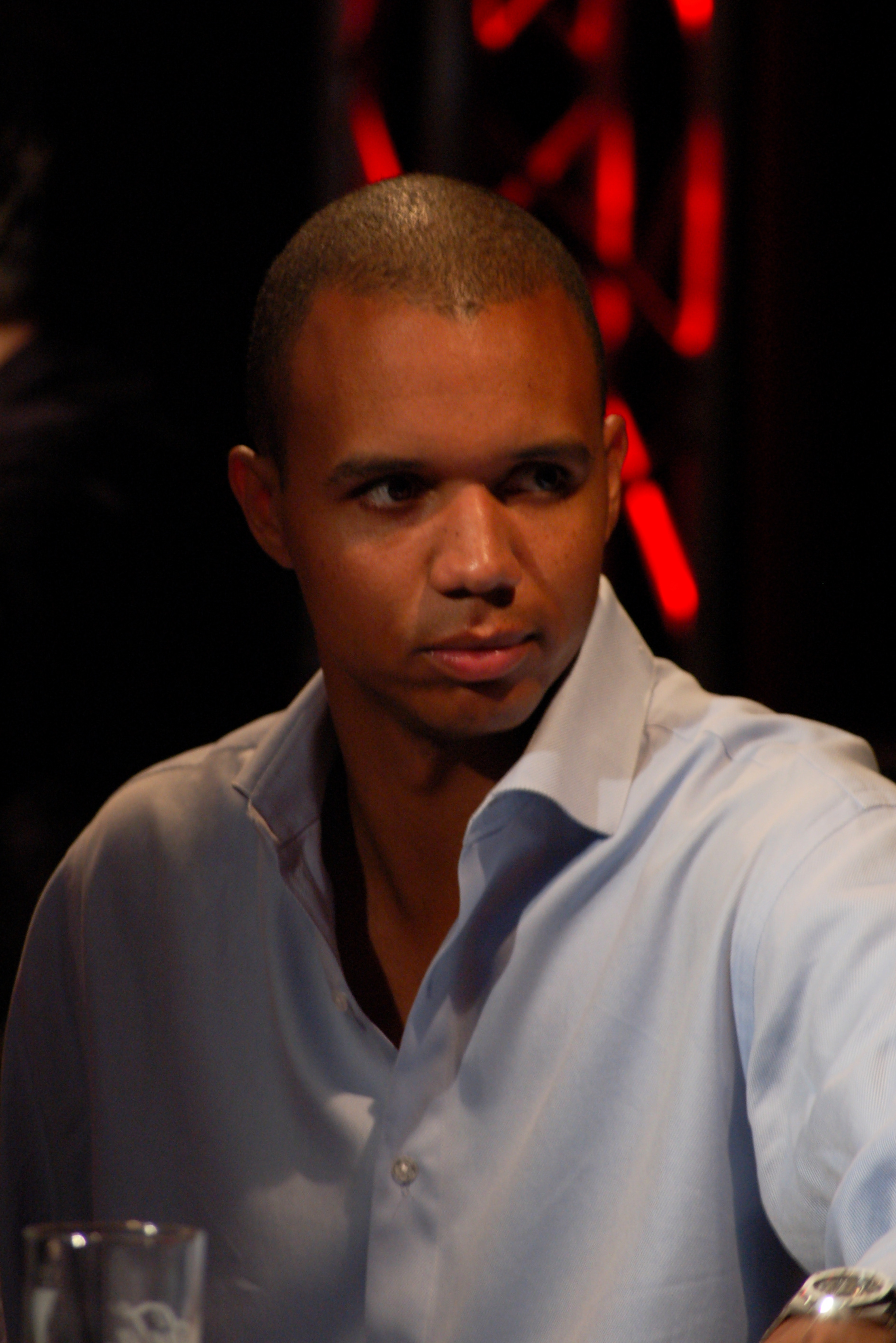 Phil Ivey at the Million Euro Challenge